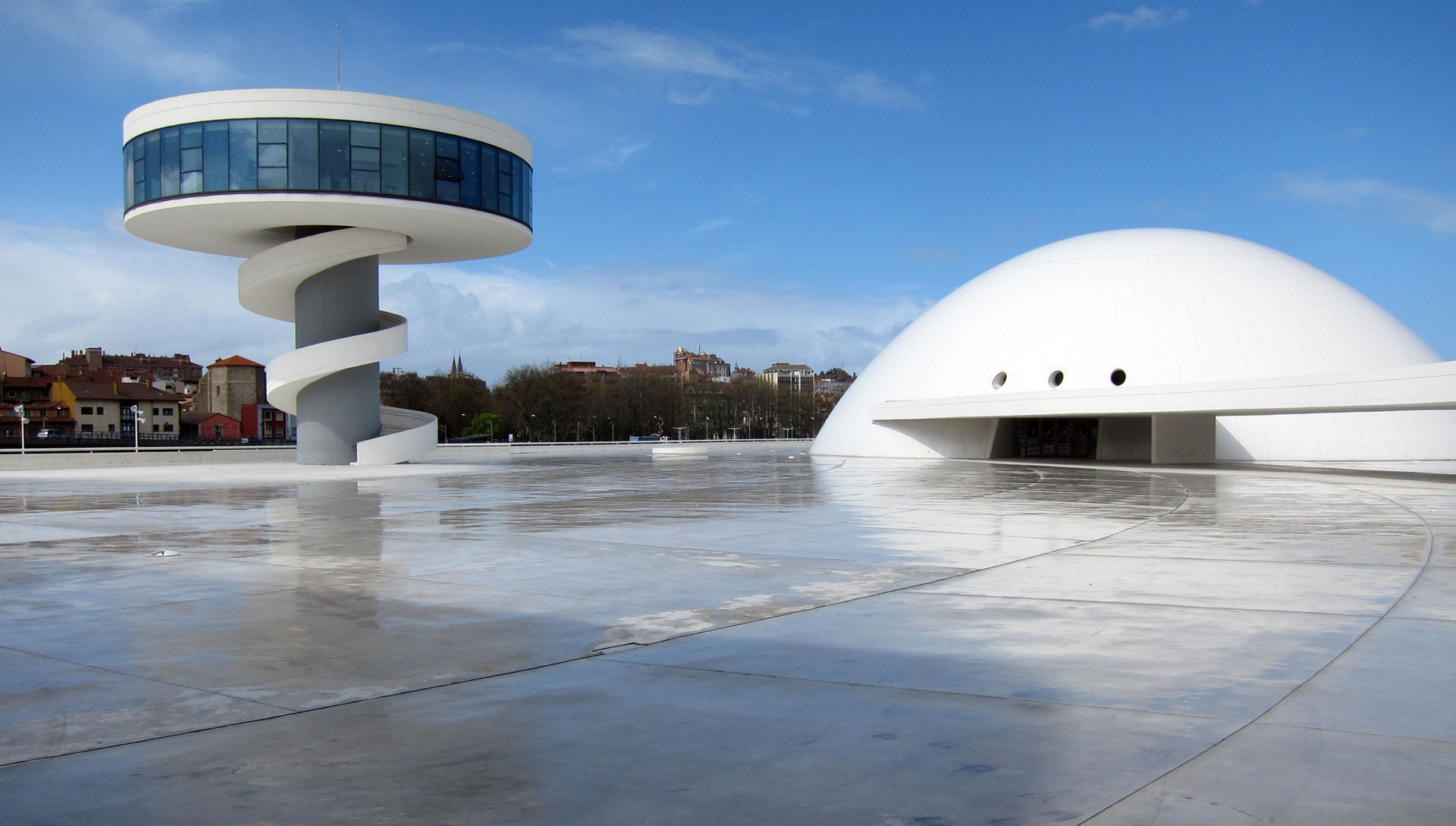 Dome and Tower of the Oscar Niemeyer International Cultural Centre in Avilés (Asturias, Spain)